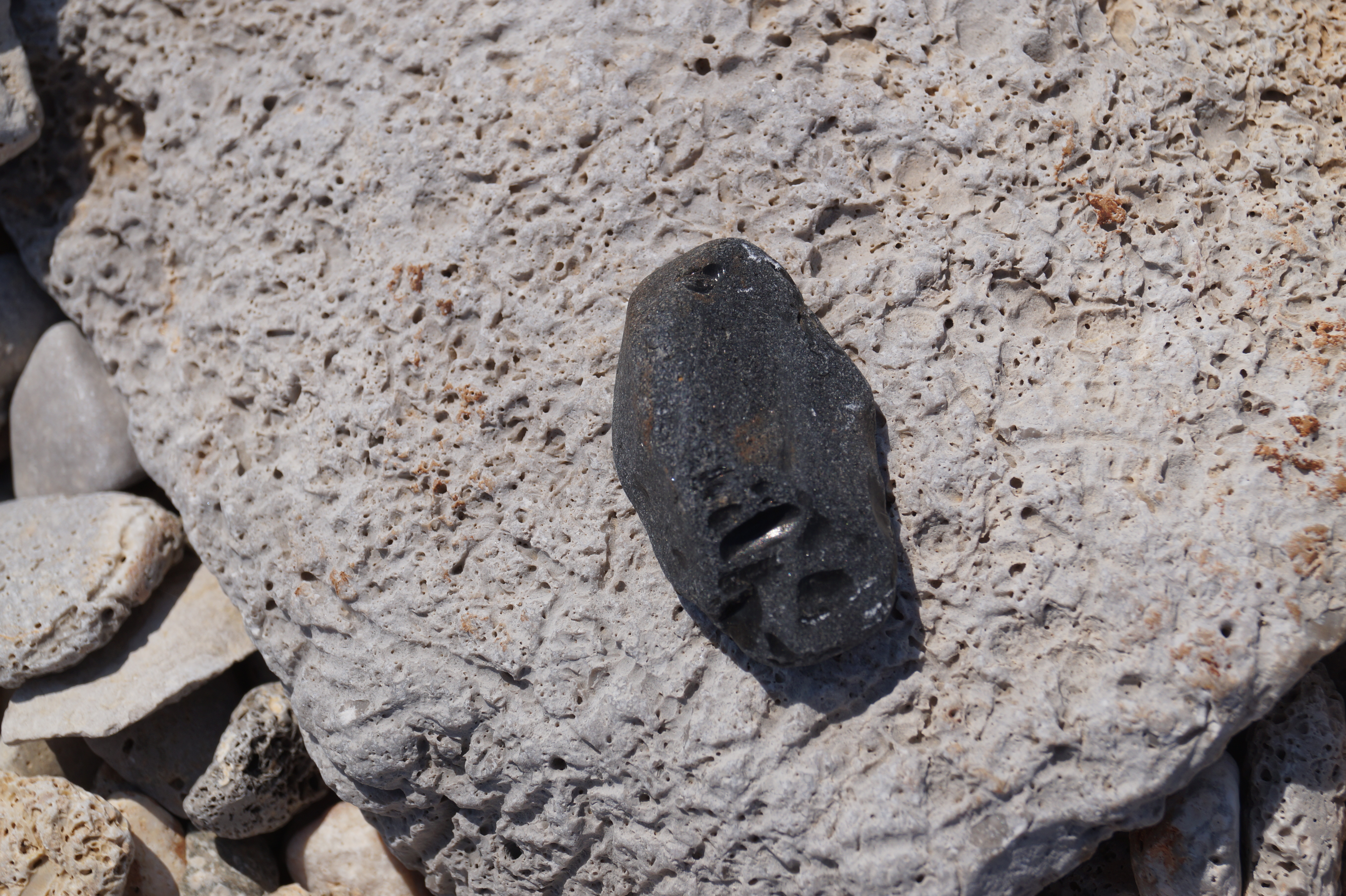 Korfos, Korinthia, Greece: Obsidian found at the beach of Kalamianos.